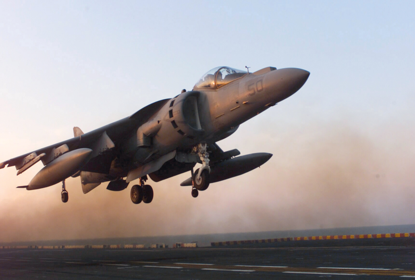 An AV-8BII+ Harrier from the 24th Marine Expeditionary Unit (Special Operations Capable) lands on the flight deck of the USS Nassau (LHA-4) after conducting flight operations in the U.S. Central Command Area of Responsibility.